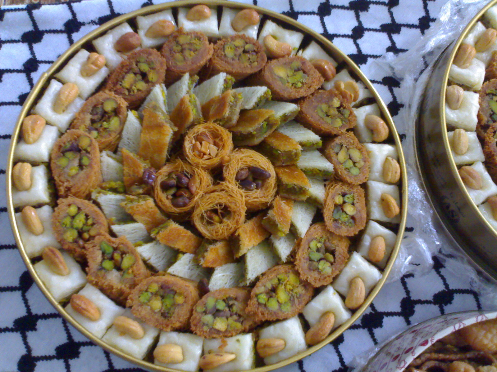 set of baklawa sweets from Nablus. baklawa, balooryah, osh elbolbol and other nawashef.